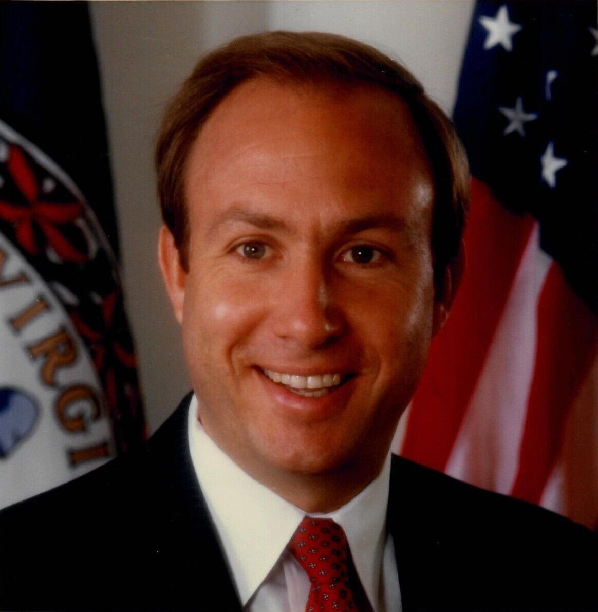 Found from , assumed to be public domain.